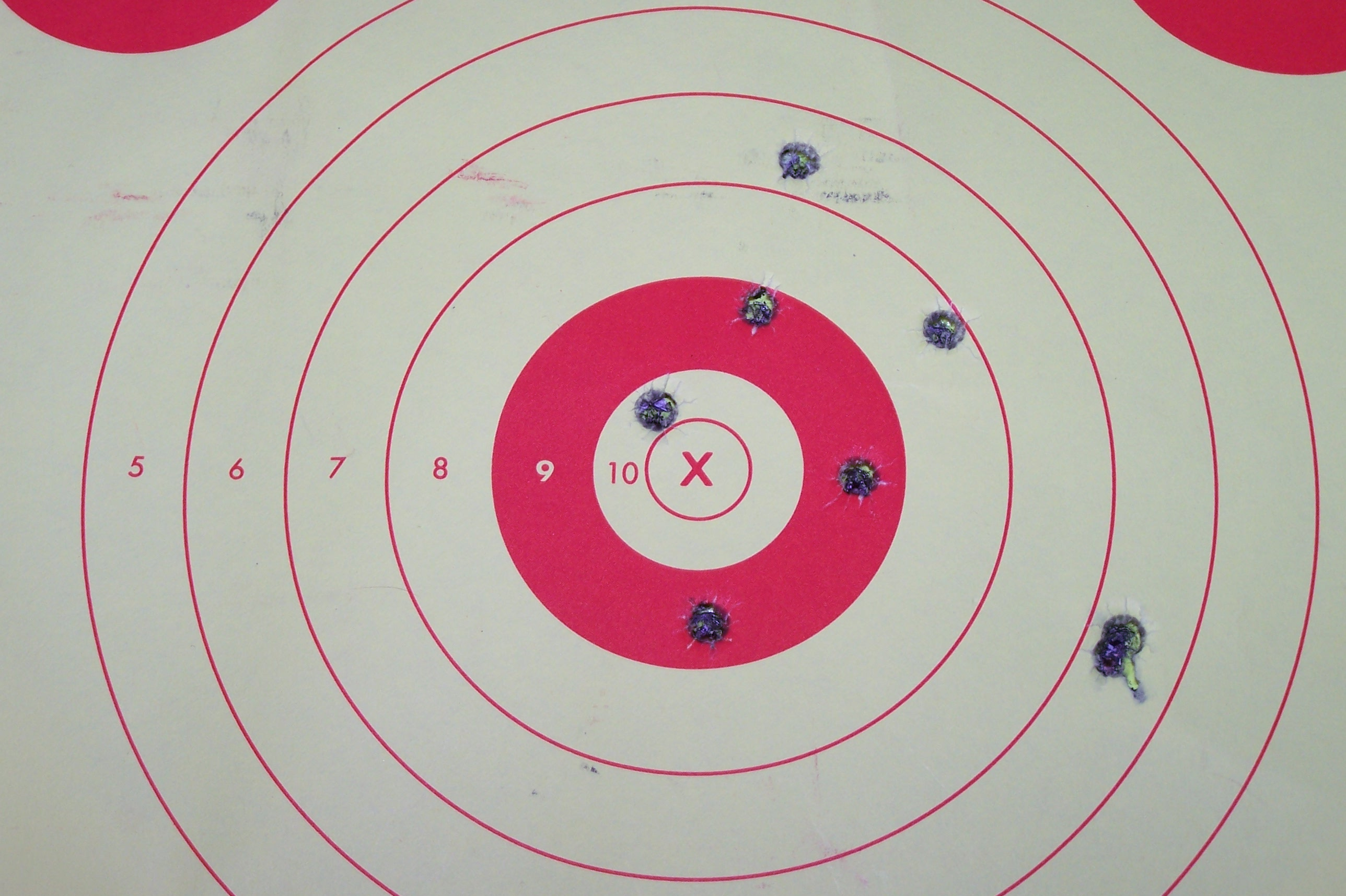 A picture of a paper target that has been shot with a gun.